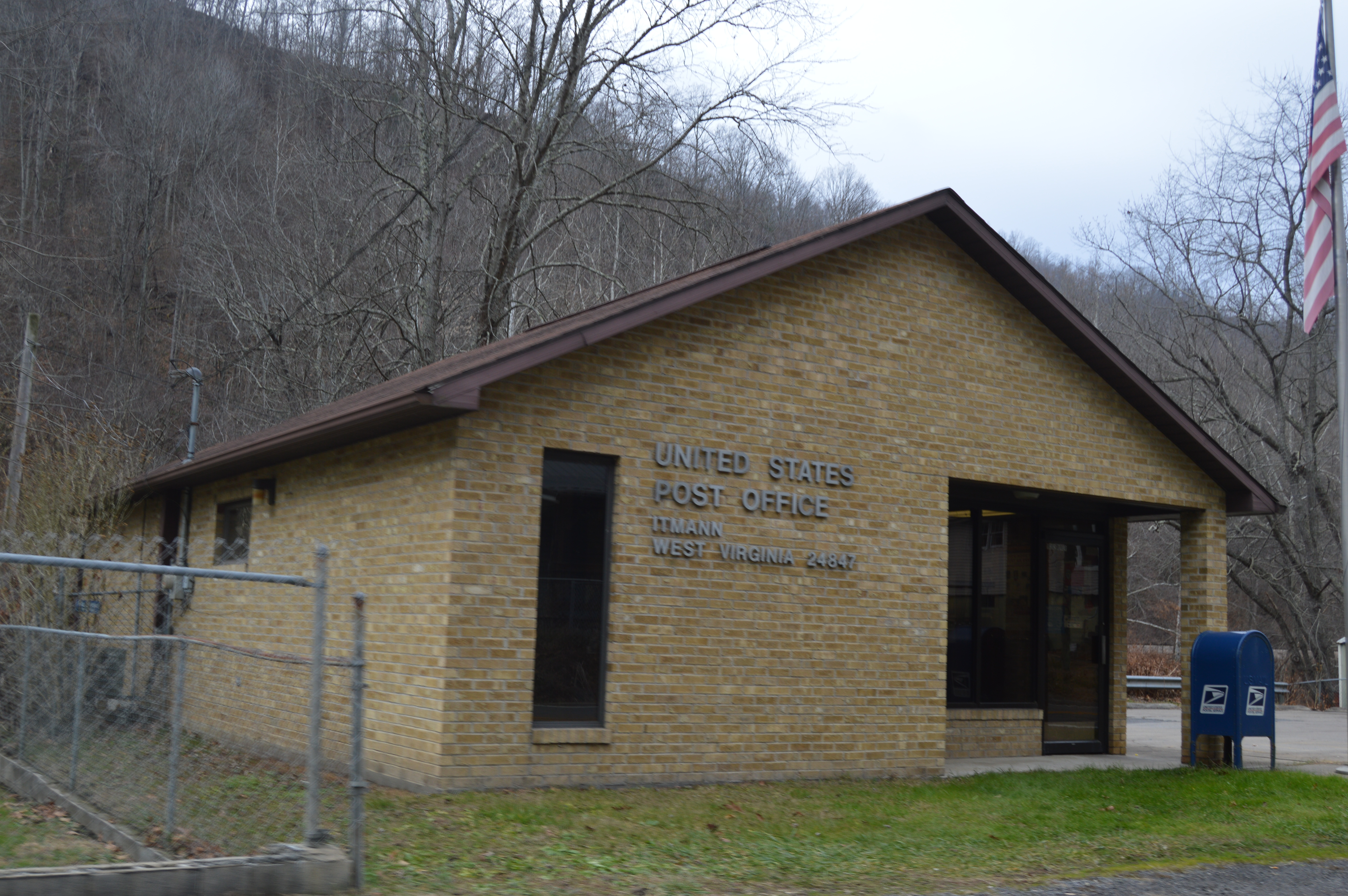 Front of the Itmann post office, located on West Virginia Routes 10/16 at Itmann in Wyoming County, West Virginia, United States.